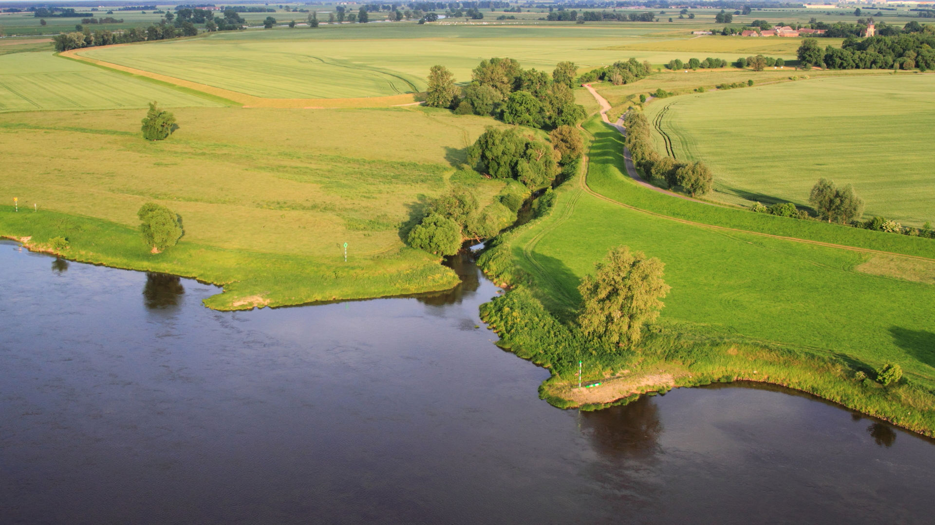 KAP (Kite Aerial Photography)